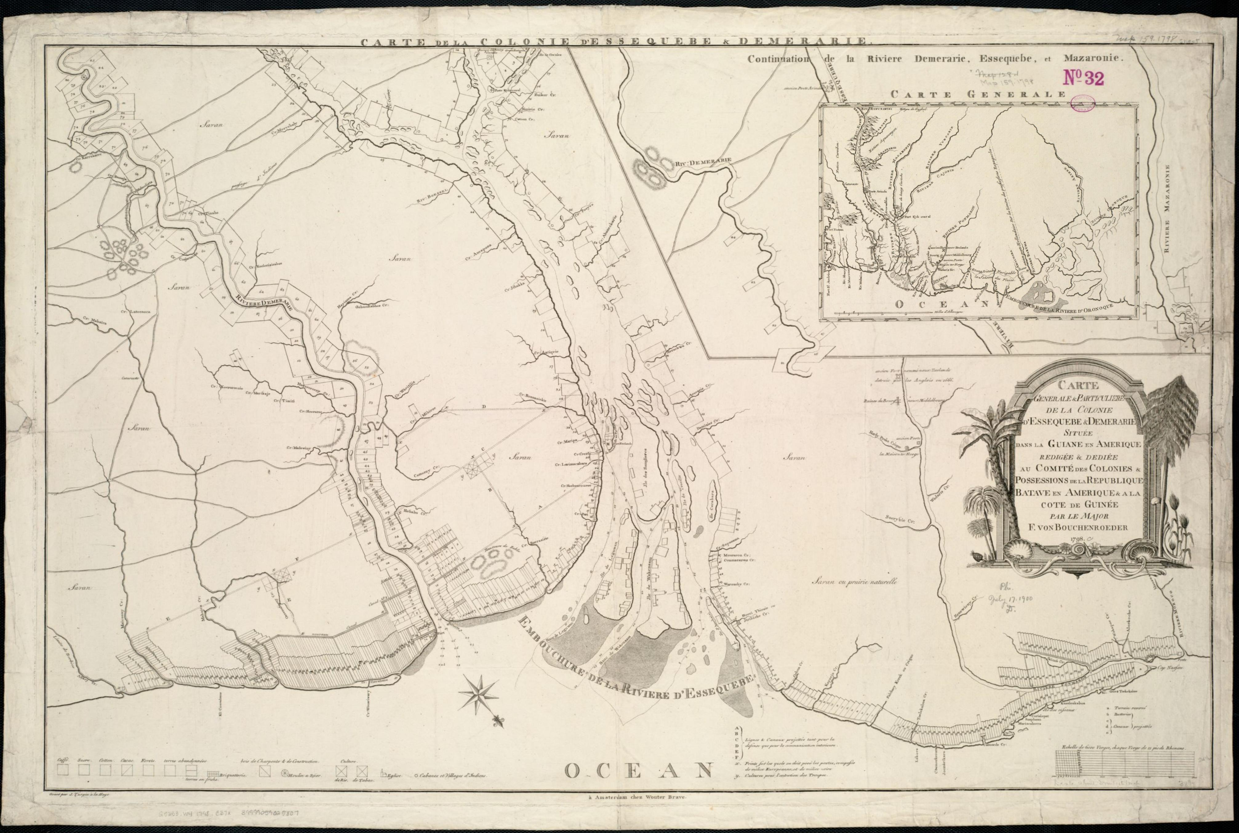 Zoom into this map at . Publisher: Brave, Wouter Date: 1798 Location: Demerara, Essequibo Dimension 62x97cm Scale: ca. 1:190,080 Call Number: G5253.W4 1798 .C37x